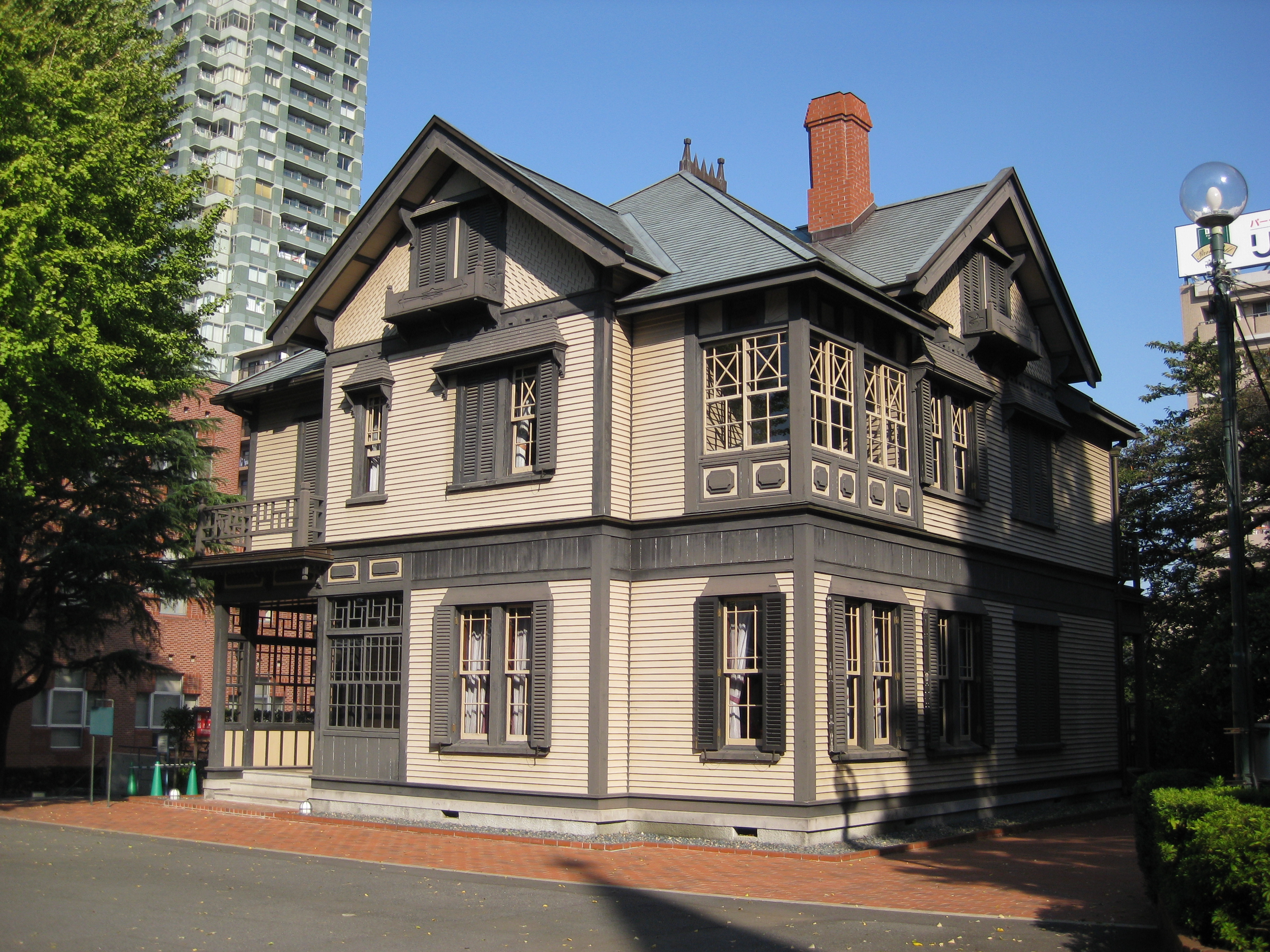 明治学院大学白金キャンパス内のインブリー館。